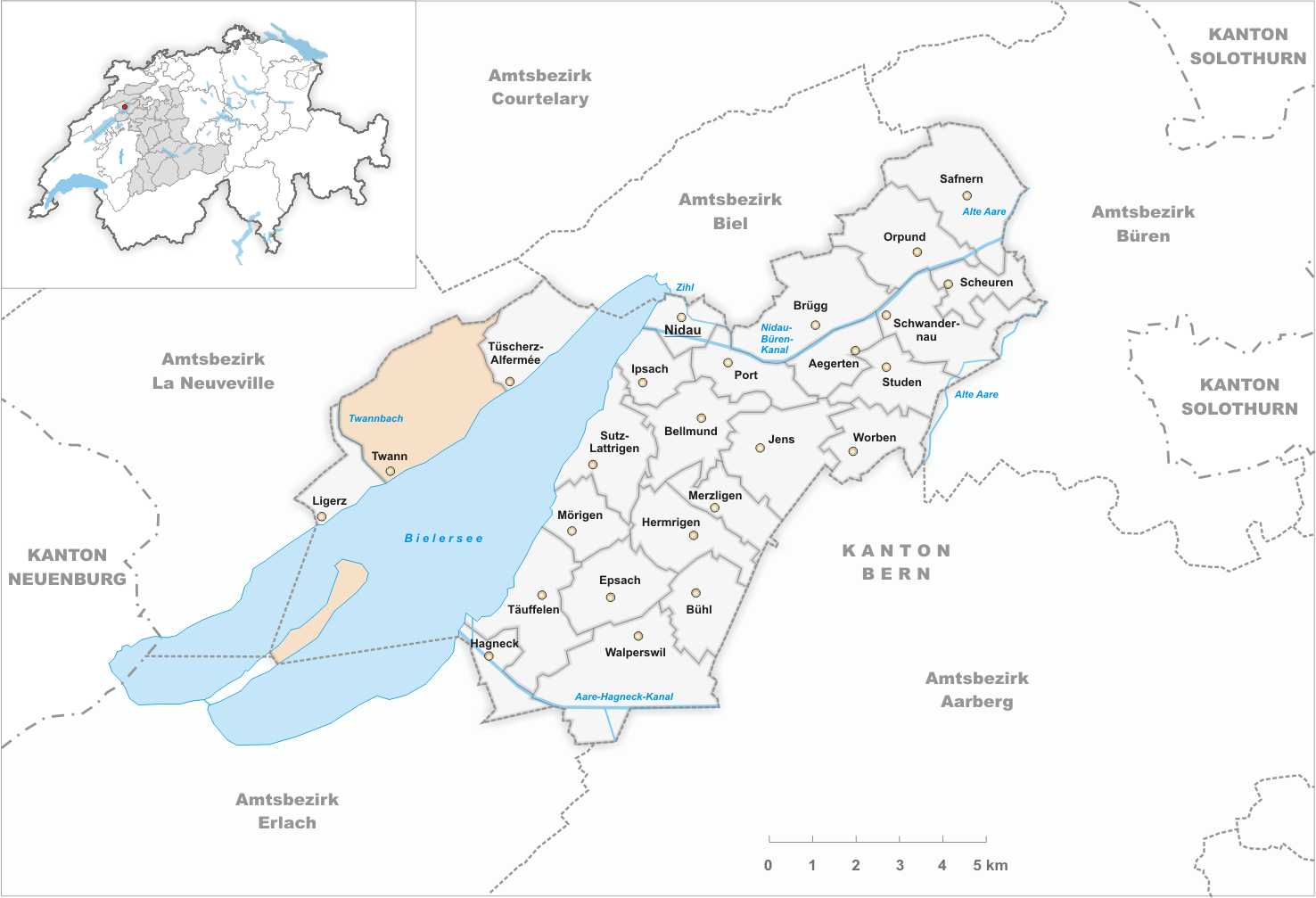 Municipality Twann